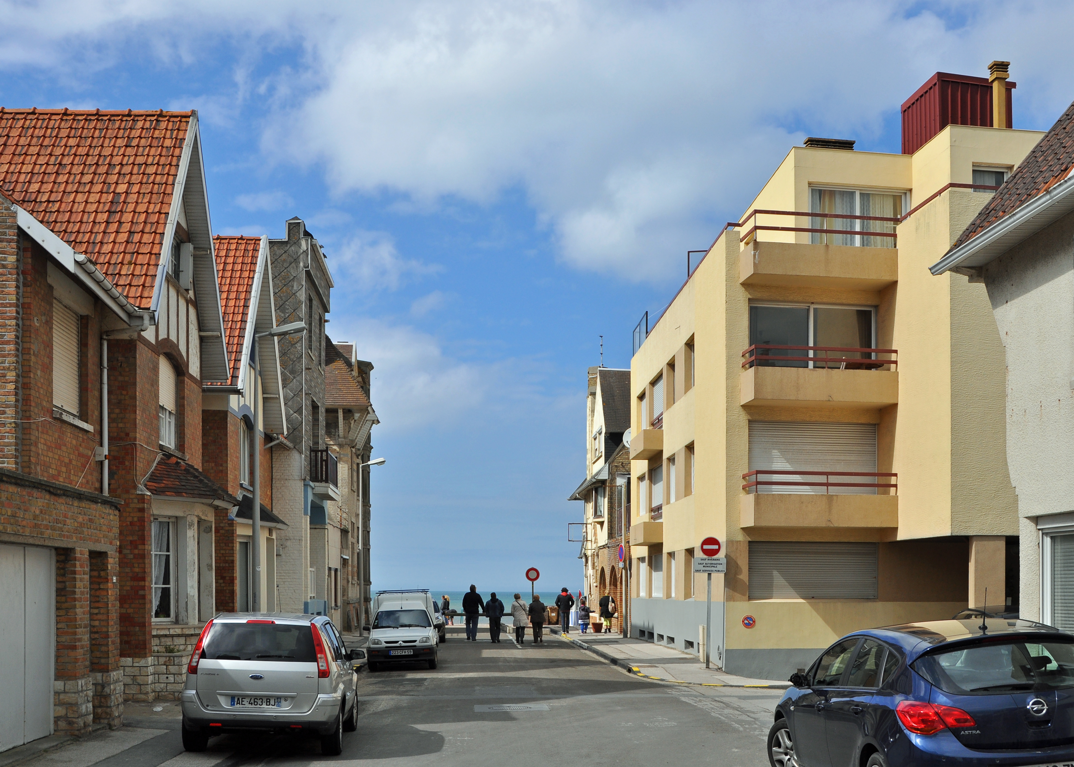 Bray-Dunes (Département du Nord, France): Rue de l'Ancienne Gare (Old Station street)